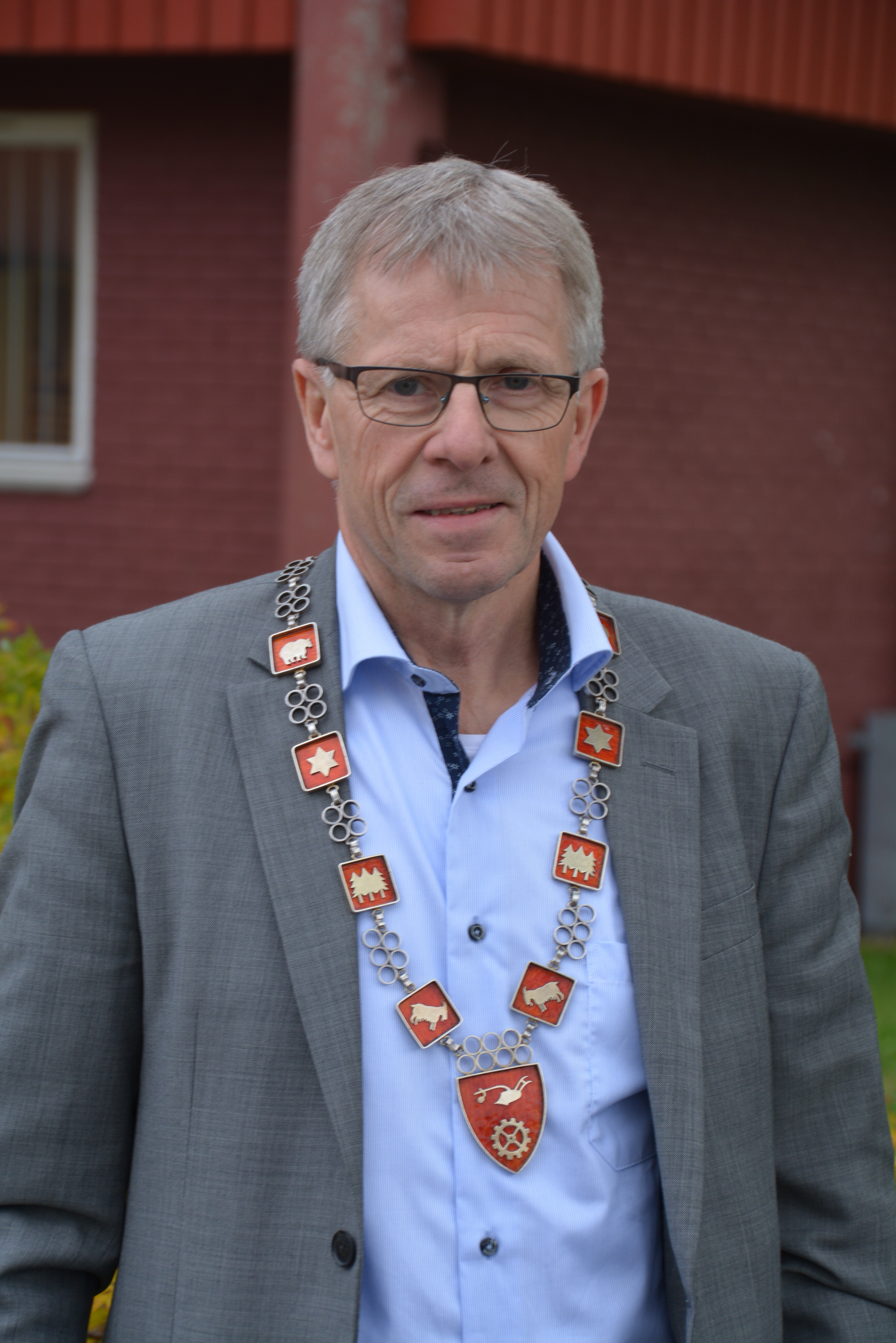 Mayor of Leksvik, Norway: Steinar Saghaug